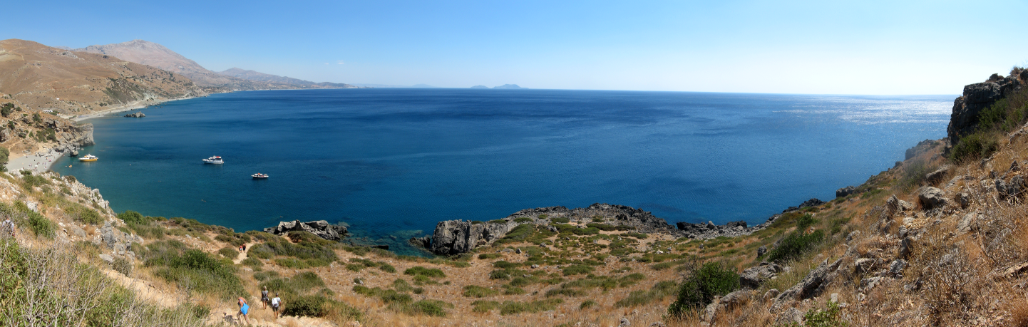 Going down to Preveli Beach. View to Libyan Sea.